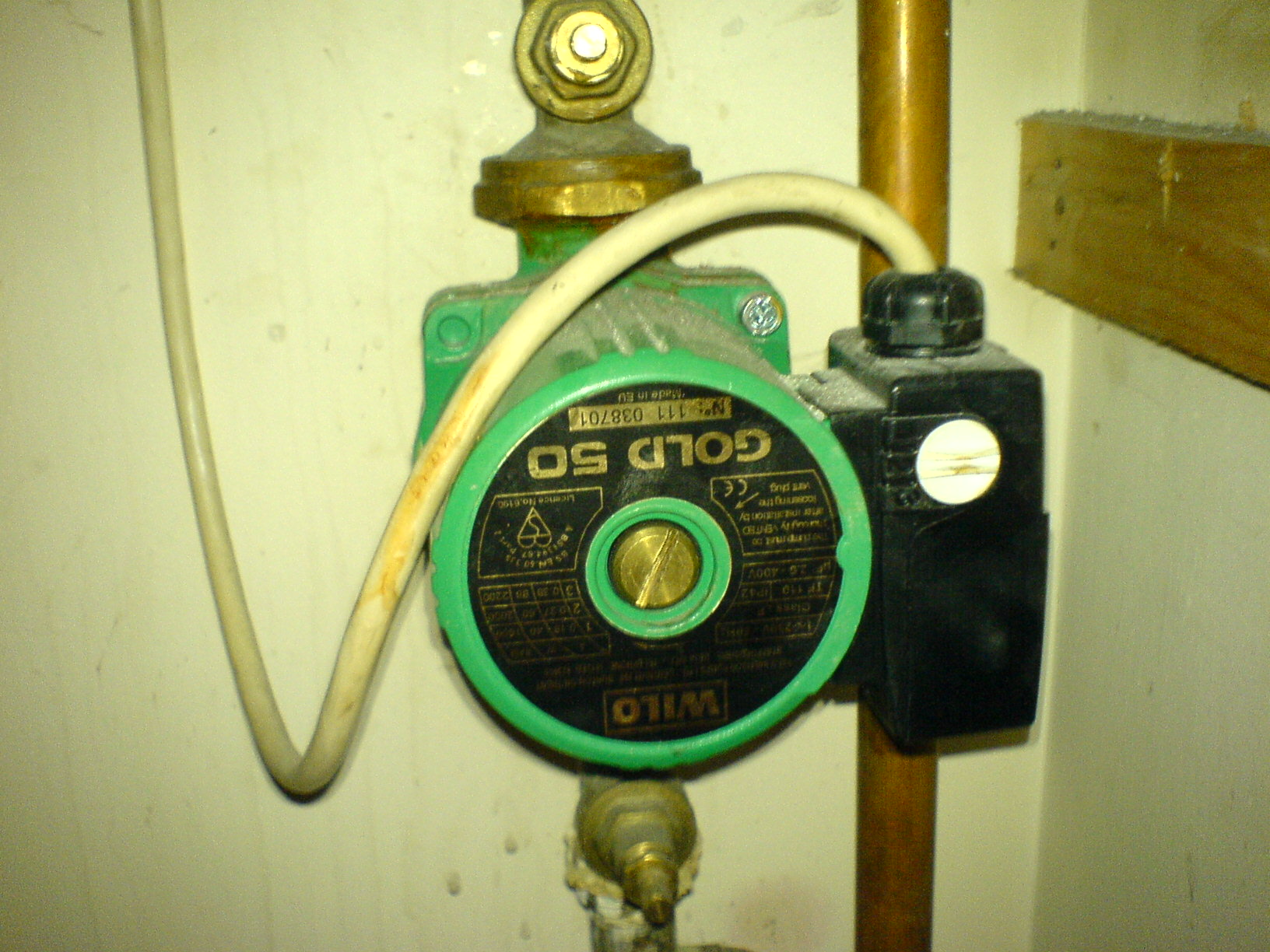 Central Heating Pump